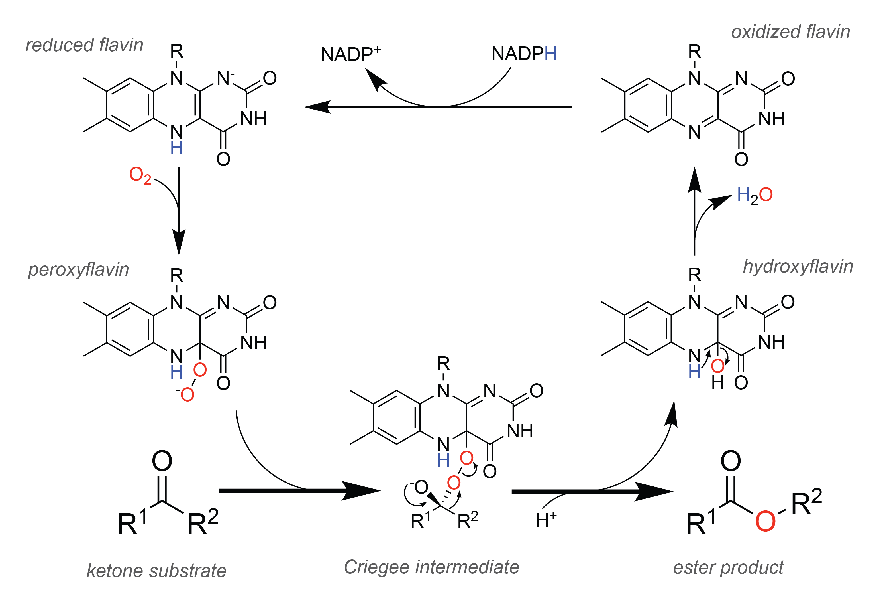 Reaction mechanism of the flavin cofactor (only the relevant isoalloxazine ring is shown) during catalysis of Baeyer-Villiger monooxygenase enzymes.